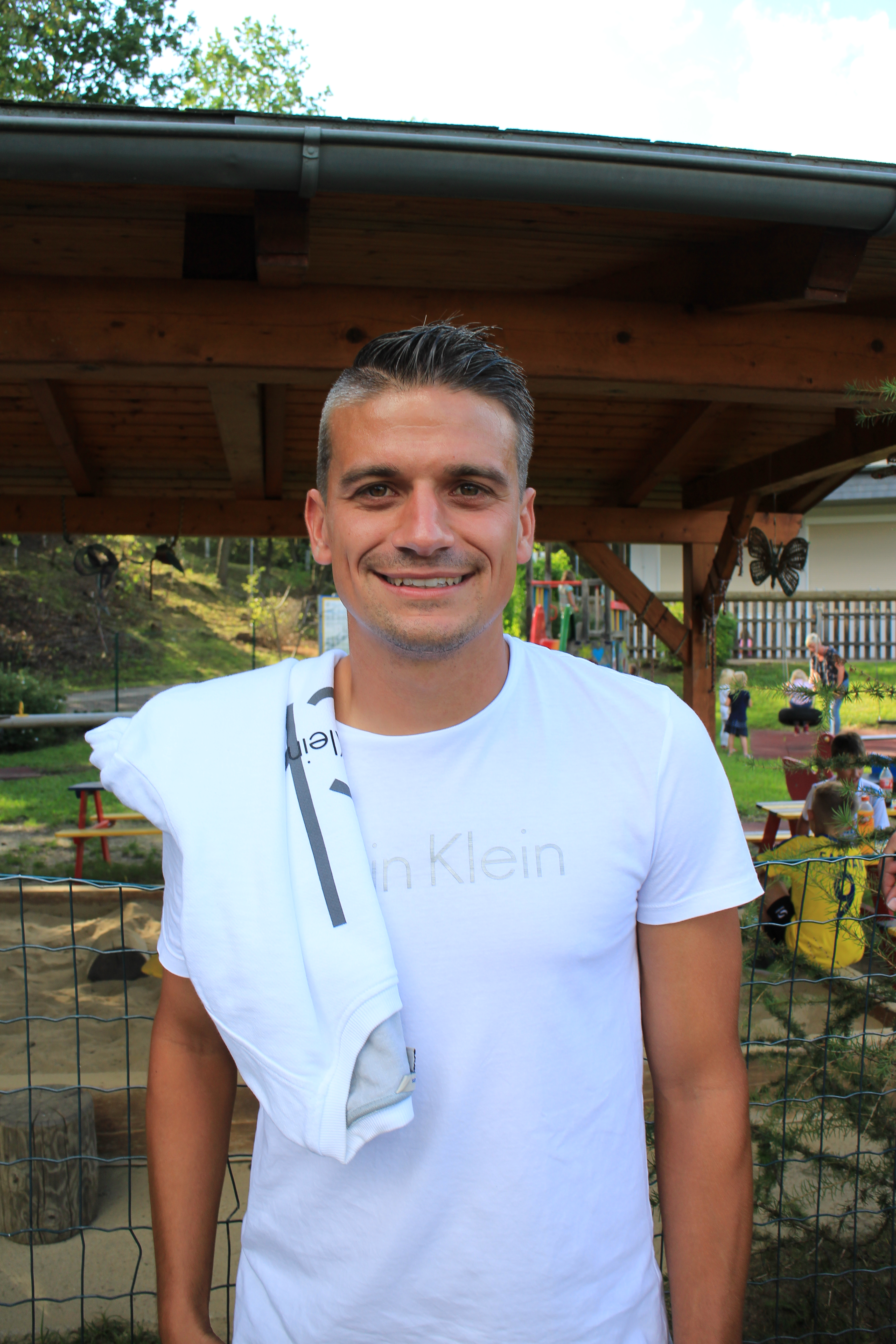 Siegfried Rasswalder (Hartberg) as a visitor